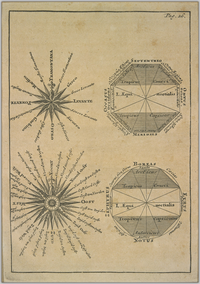 A medieval wind rose from the UBC Library Digital Collections